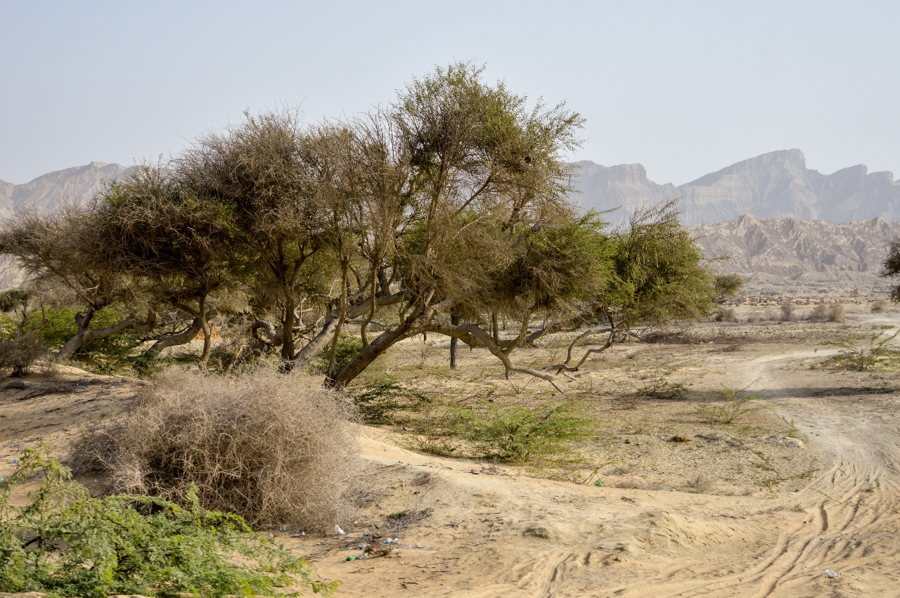 The view captured in hangol national park balochistan Pakistan on the way to kund malir beach. This image is taken with nikon D3200 with 28-300mm lens.